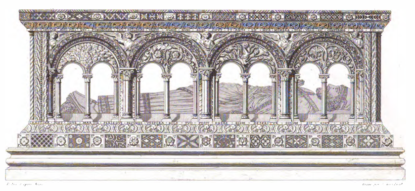 Tomb of Henry 1, 4th Count of Champagne.